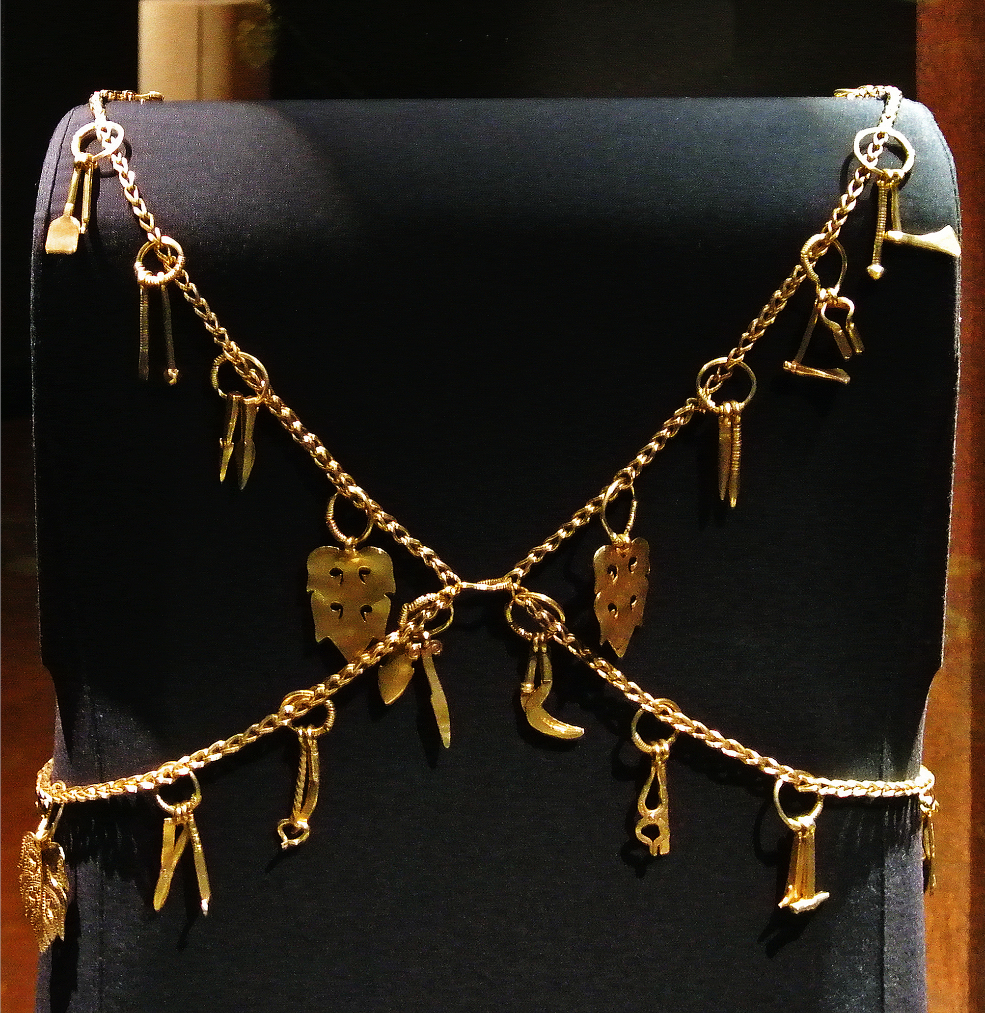 Body chain with 52 pendant amulets (charms), East Germanic (Gepidic?) - back view